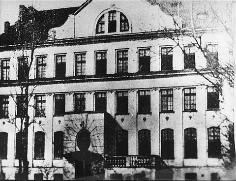 The Children's Home [Dom Sierot] was a Jewish orphanage established by Janusz Korczak in Warsaw in 1912. It was located at 92 Krochmalna Street in a building designed by Korczak to facilitate the implementation of his progressive educational theories. He lived and worked there until 1940, when the orphanage was forced to move to the Warsaw Ghetto. Photo taken circa 1935.